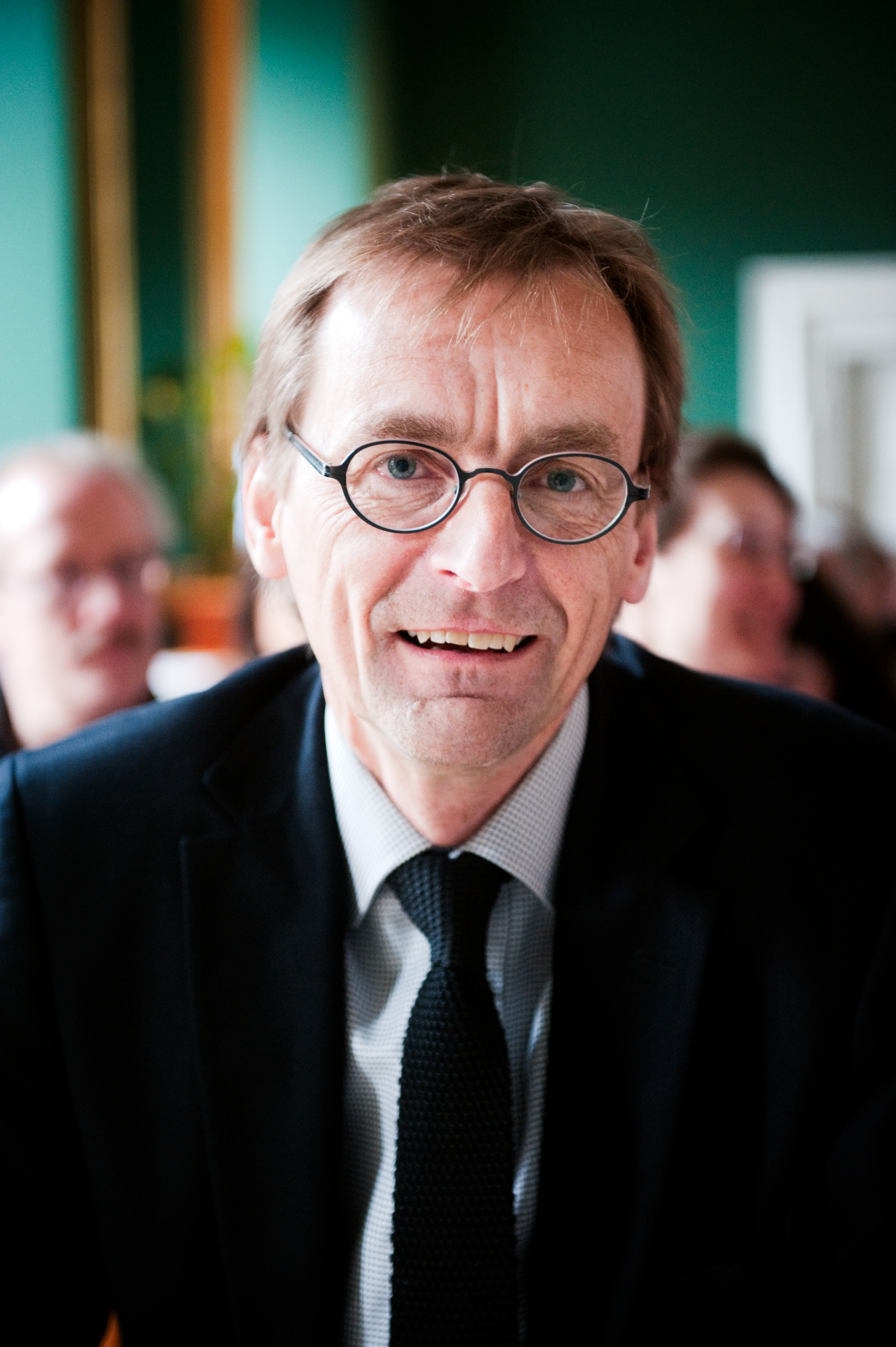 Torben M. Andersen professor i nationalekonomi Århus universitet på konferensen Fiscal consequences of the crises, som anornades av de nordiska finansministrarna 2010-03-22